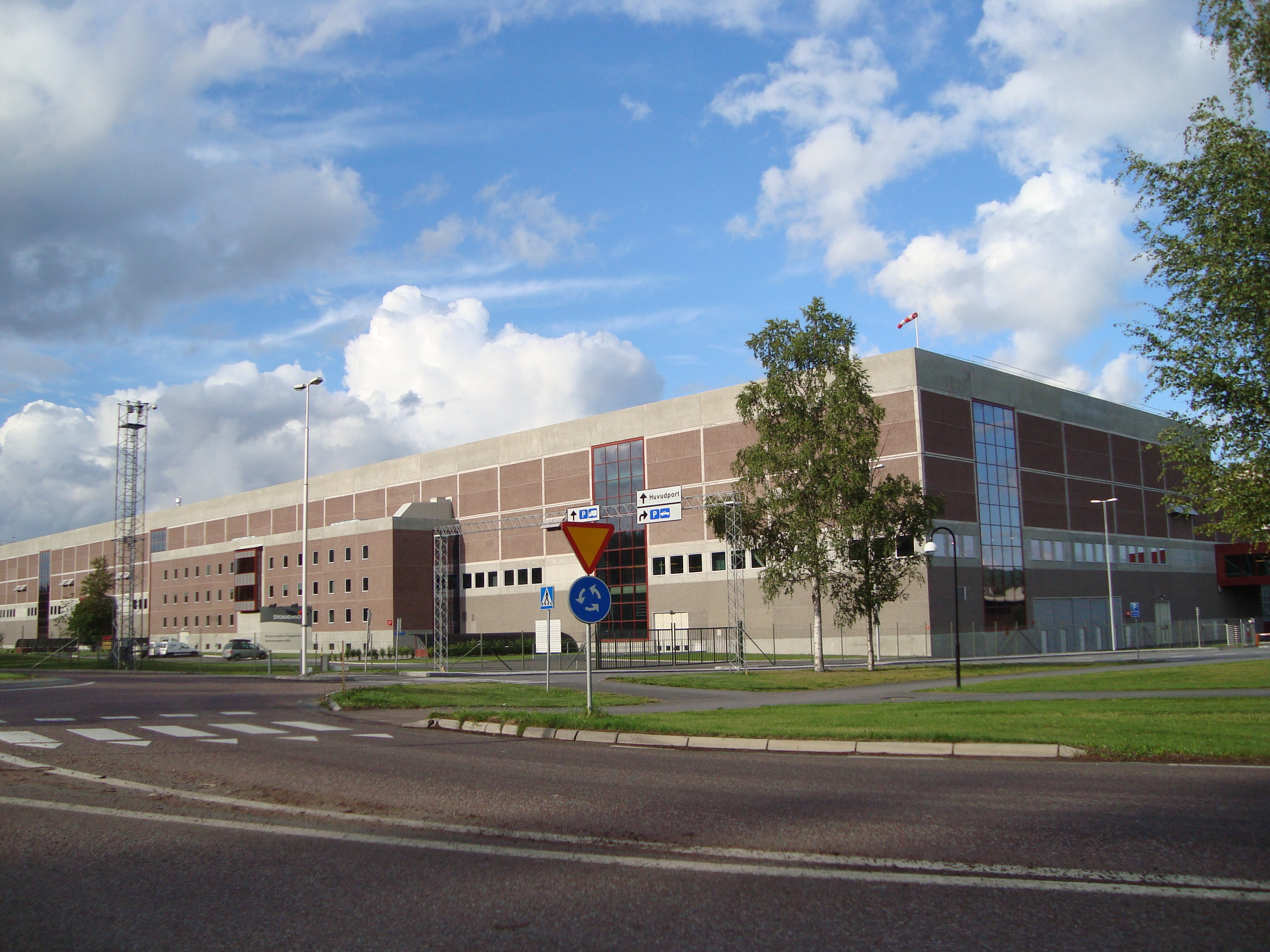 Paper mill of Kvarnsveden, Borlänge, Sweden